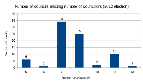 This graph shows the different council sizes across Victoria as of the 2012 elections. Due to the appointment of administrators in some areas (e.g. Greater Geelong), and the retirement of some councillors, this information is no longer exactly correct, although it is close to it. In the 2016 elections, Port Phillip and Melton will change from 7 councillors to 9 councillors. Greater Geelong will change from 13 councillors to 11 councillors in 2017 (when the administrators leave and the elections will be held).